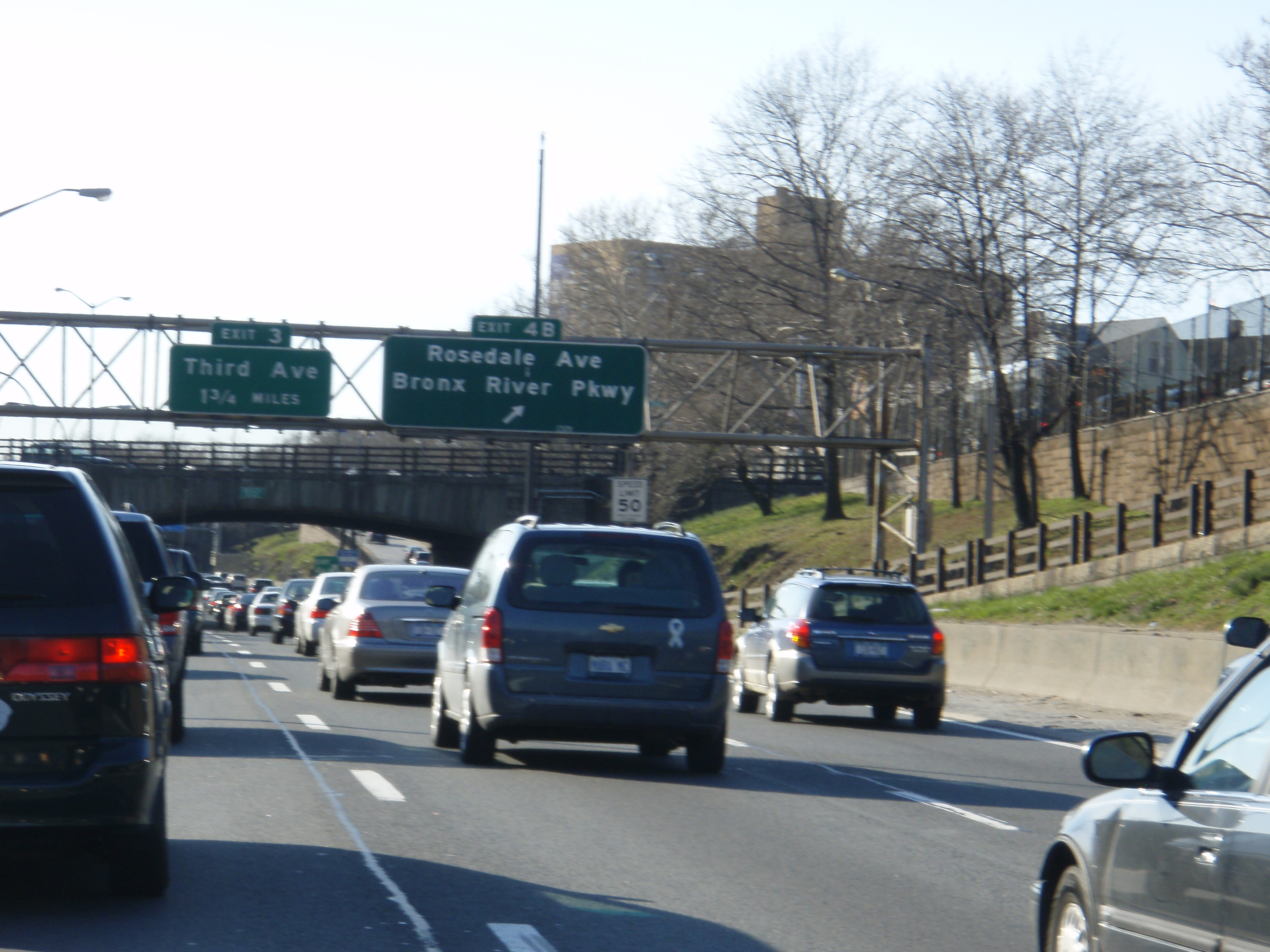 Traffic congestion on Cross Bronx Expressway (part of Interstate 95 in Bronx, New York)